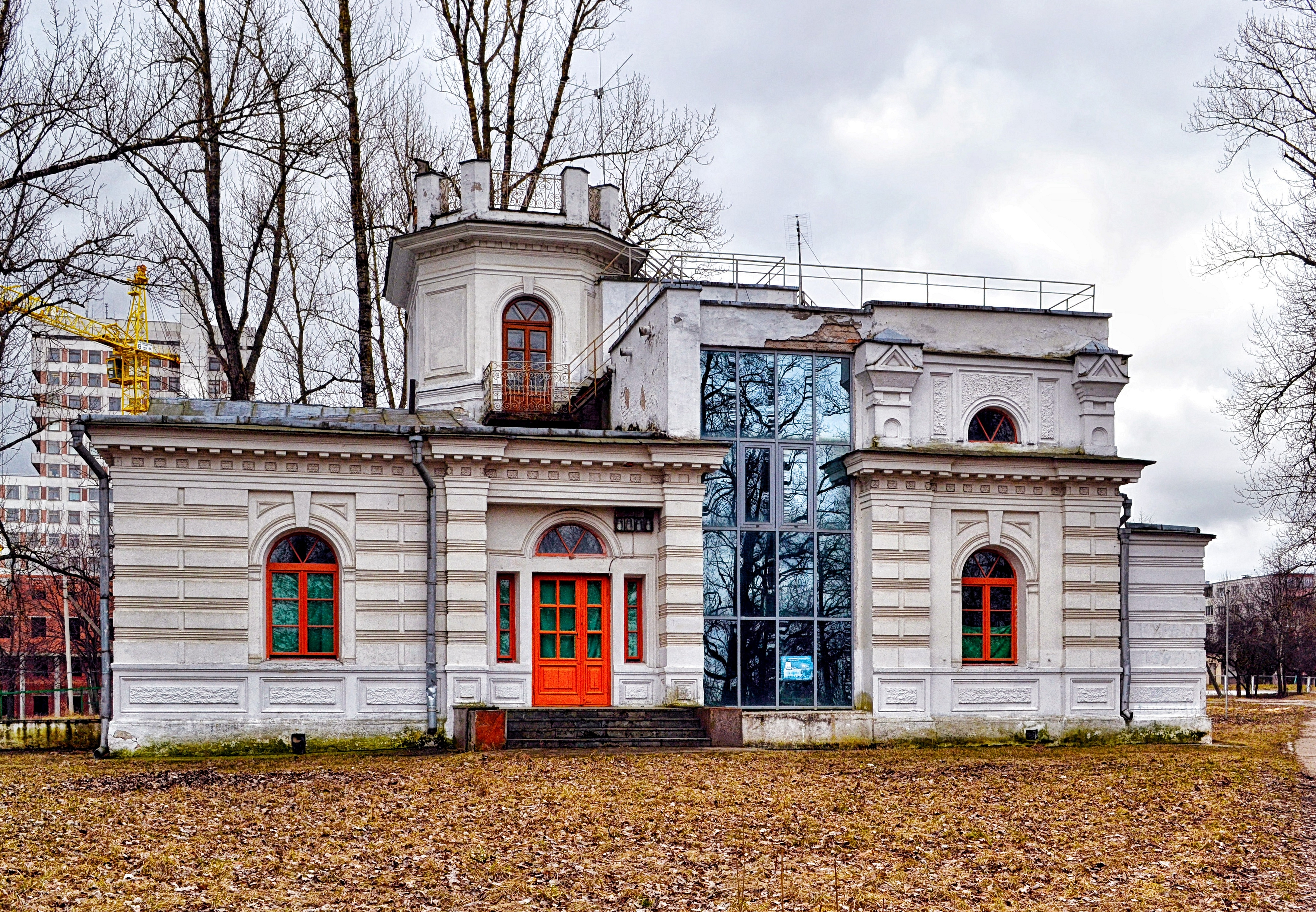 Manor of Adadurov. Minsk, Belarus.